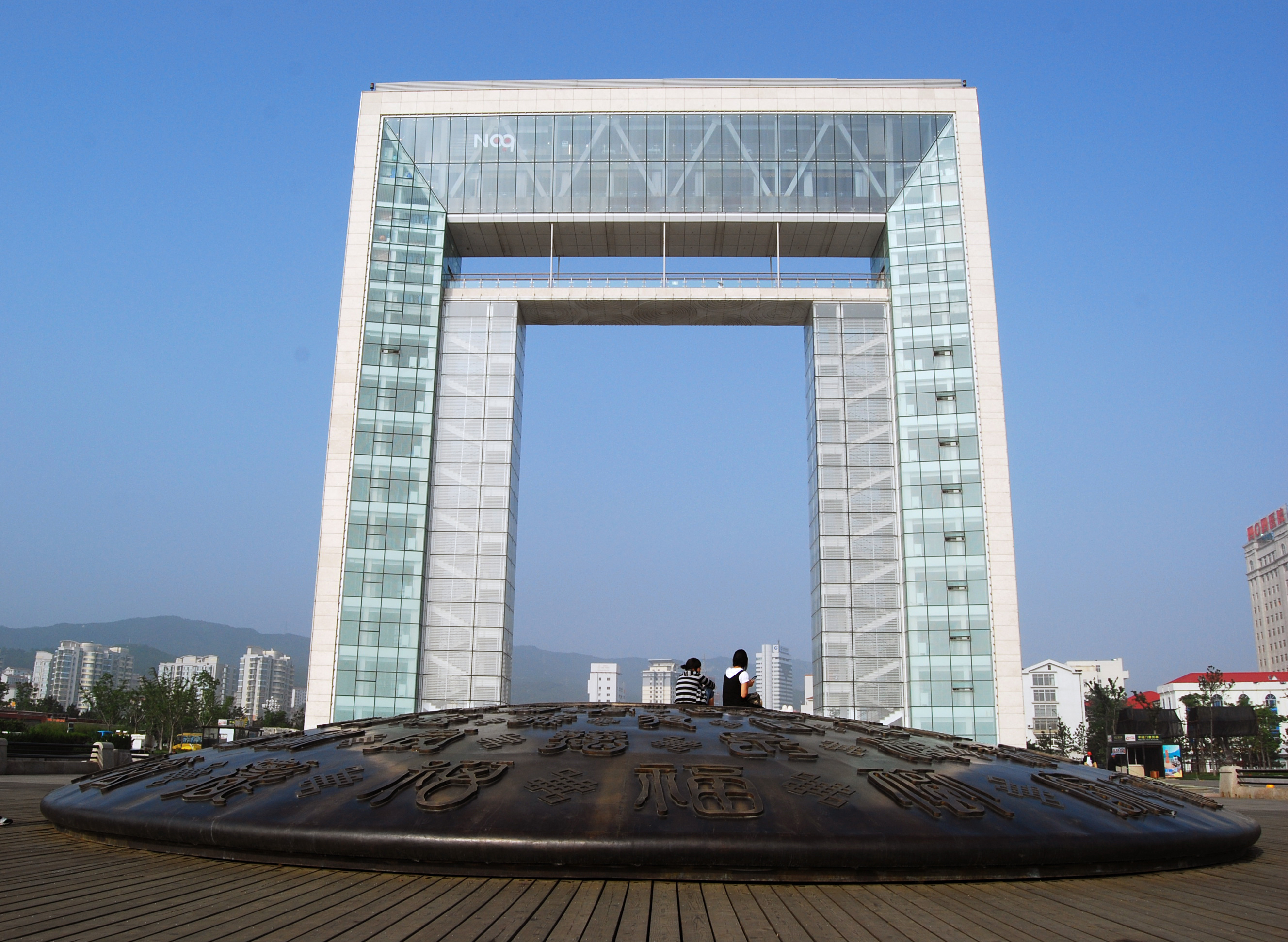 Happiness Gate in Weihai,Shandong,China.